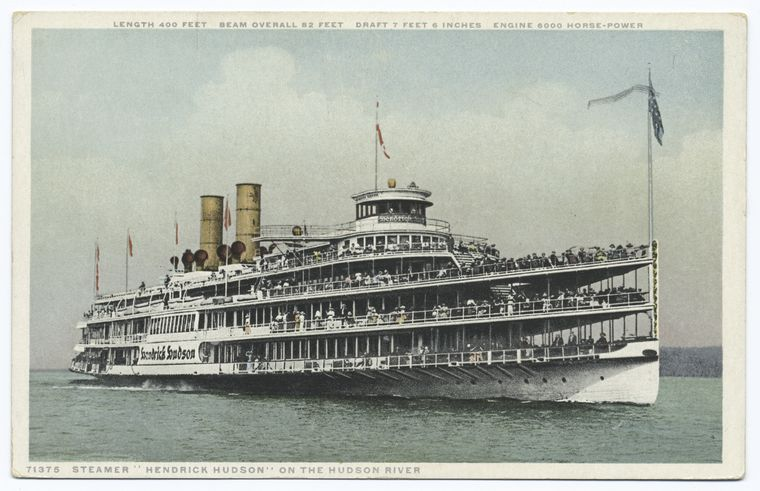 Hendrick Hudson, large Hudson River steamboat, shown on a postcard published by Detroit Pub. Co.